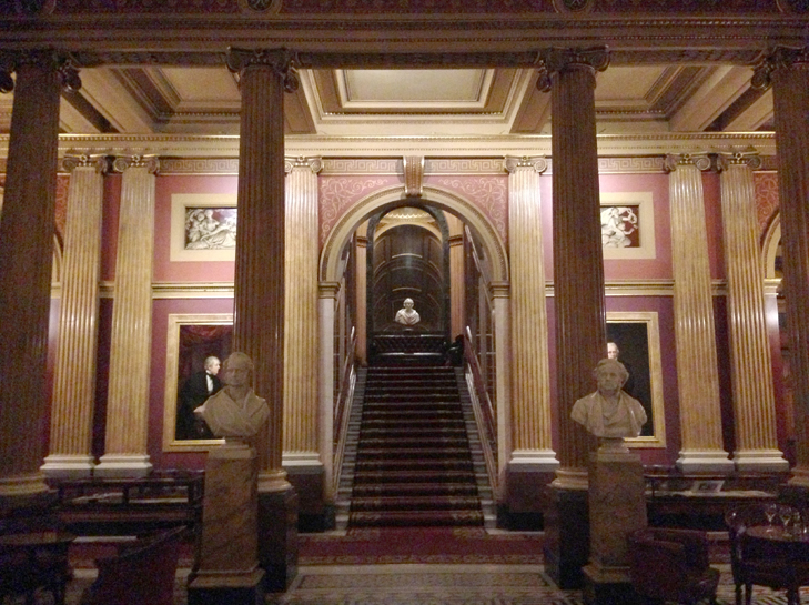 Reform Club, London, Lobby